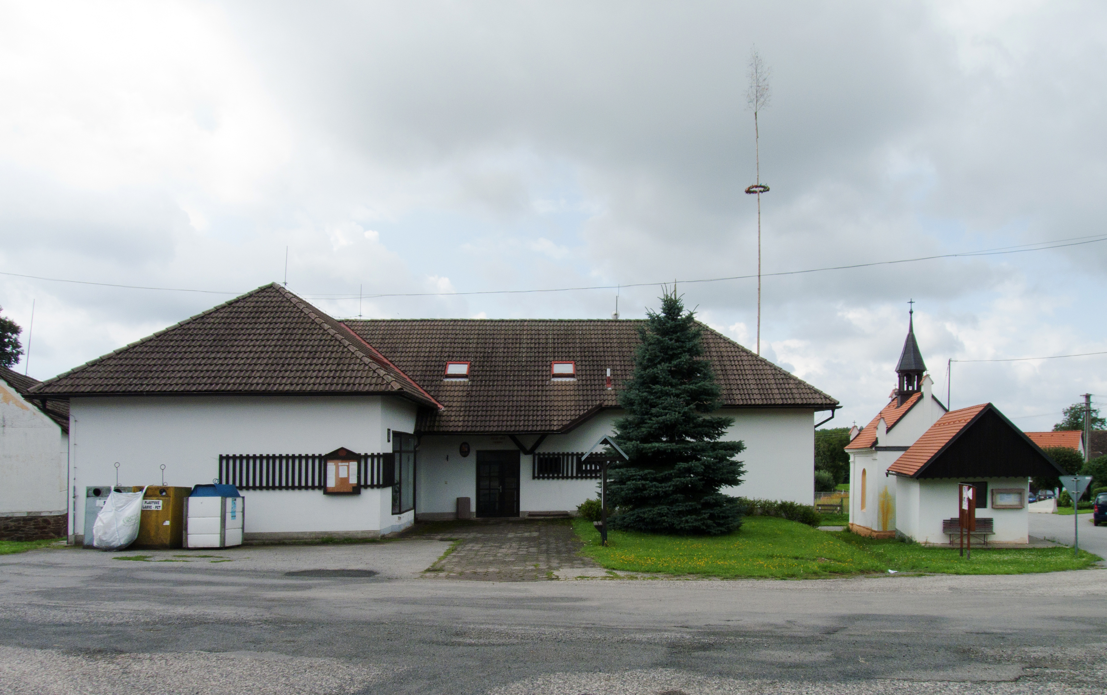 Chapel and the municipal authority building in the village of Pohnánec, Tábor District, Czech Republic